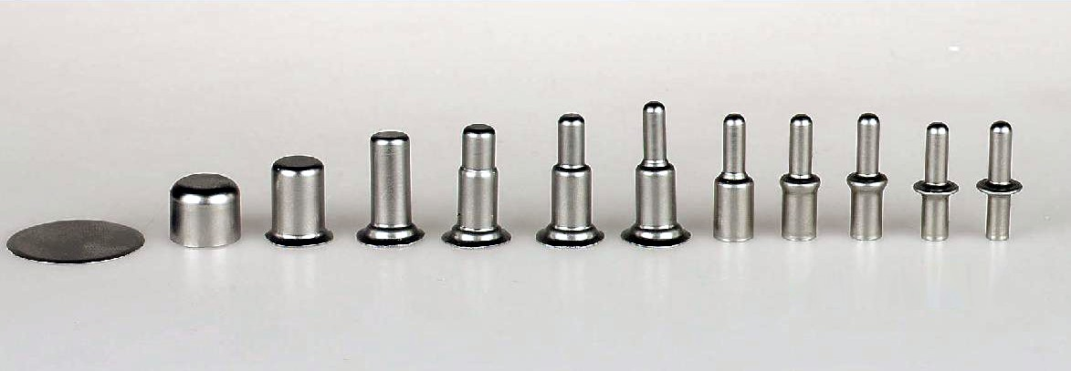 Deep Draw line example by Pressteck S.p.A Italy